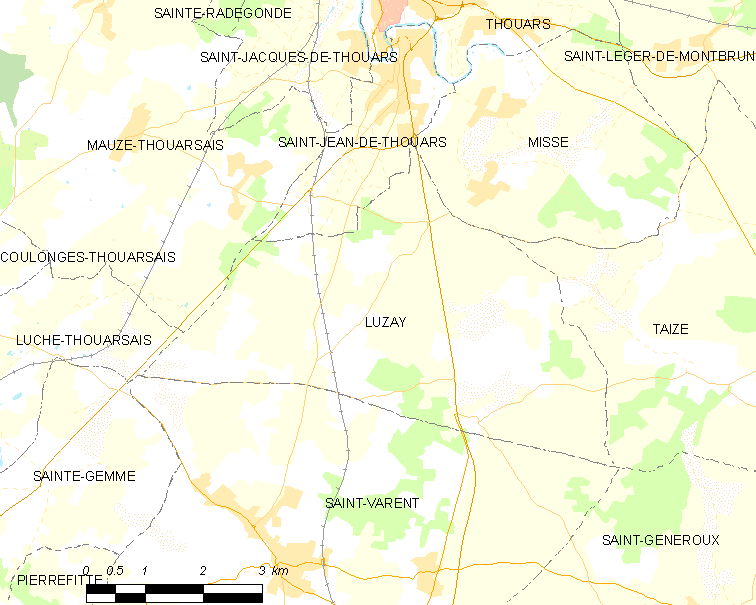 Map of French municipality Luzay